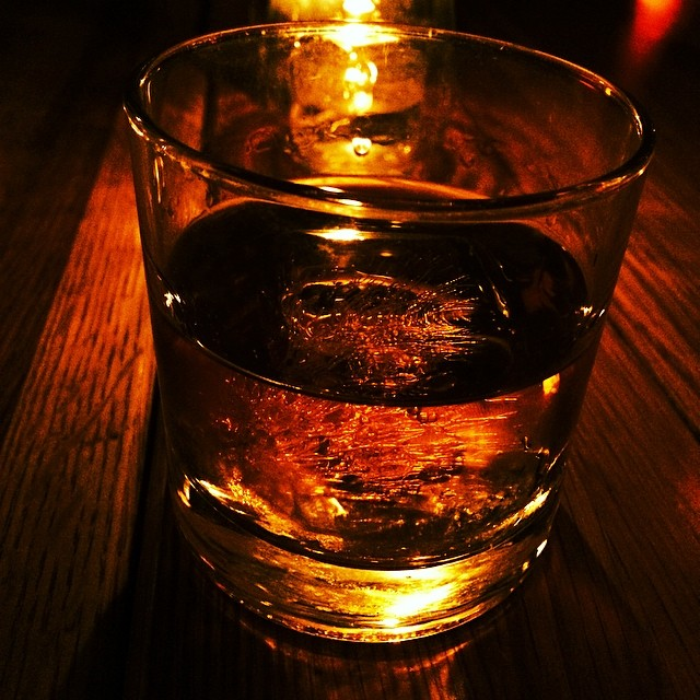 Glass of Noah's Mill bourbon. One word...delicious.